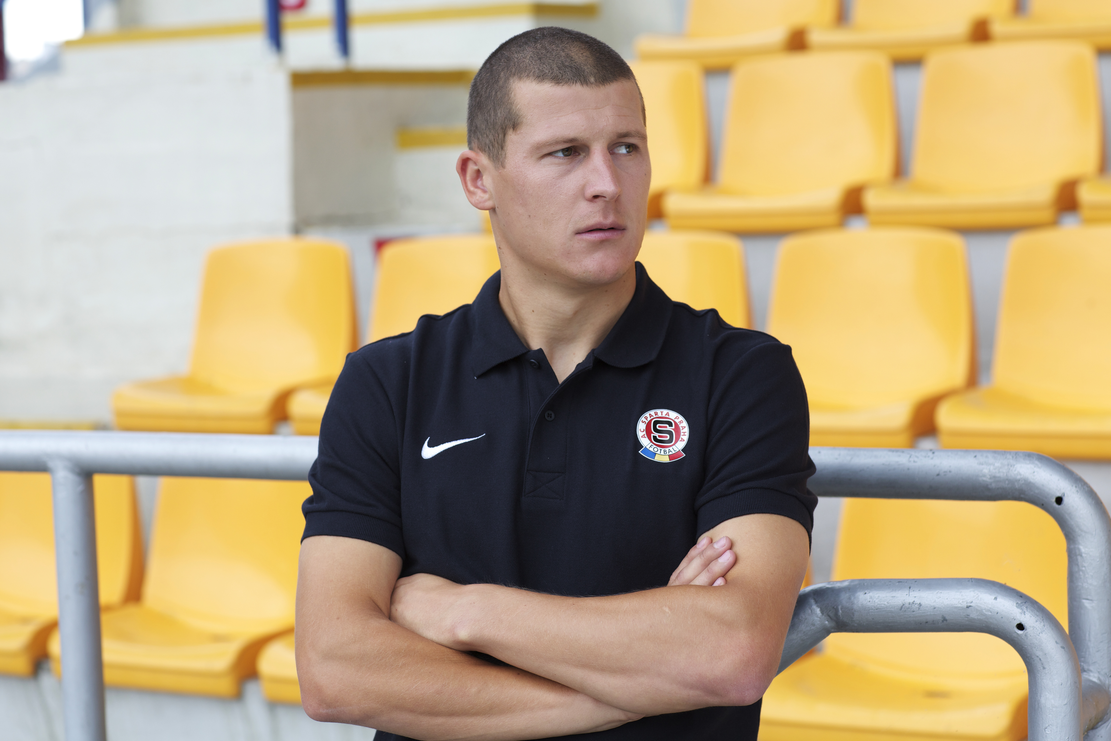 Manuel Pamic with Sparta's shirt.